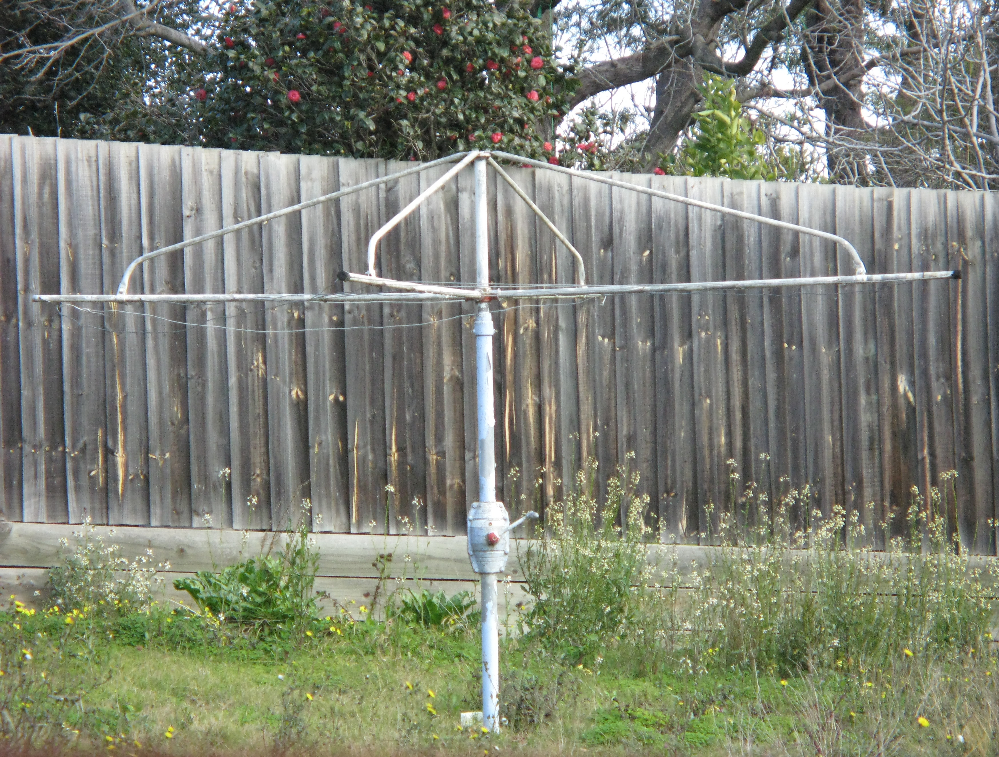 A Hills Hoist in a backyard in Balwyn, a suburb of Melbourne, Australia. Photo taken by Nick carson in August 2009.